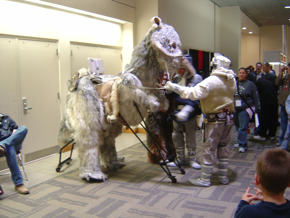 Tauntaun costume by Dan Hyatt at Star Wars Celebration III in Indianapolis in 2015.